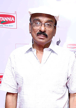 Director I. V. Sasi at the 62nd Filmfare Awards South